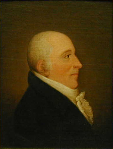 A portrait of Joseph Quesnel, circa 1808 – 1809, attributed to Gerritt Schipper.